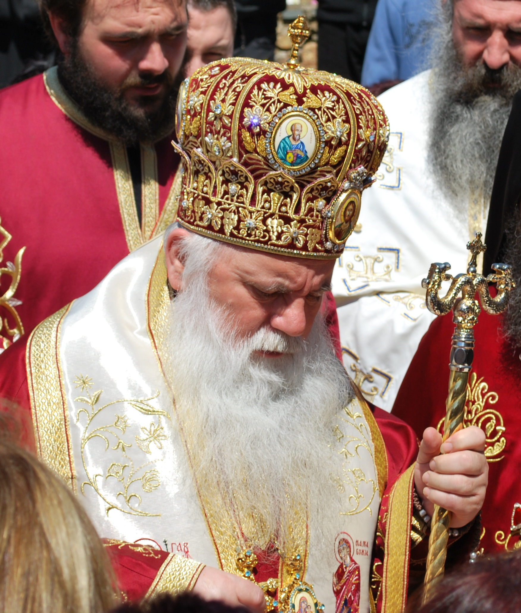 Metropolitan of Debar and Kičevo, Timotej.